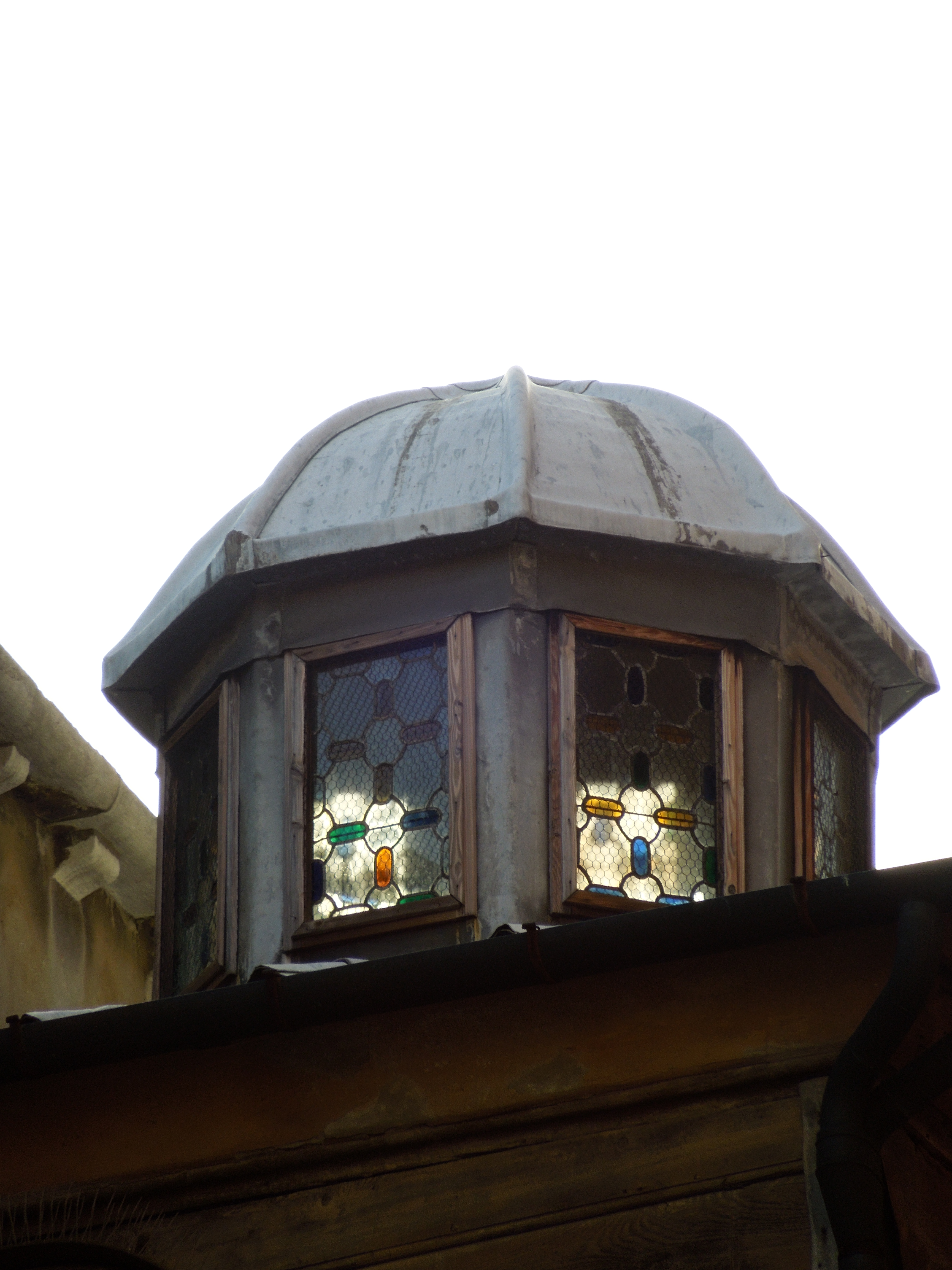 The domed skylight of the Canton Synagogue in Venice.